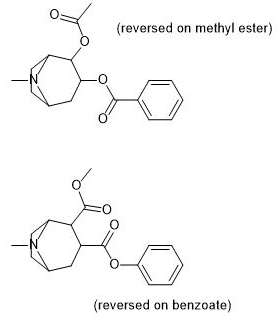 Two out of three potential "reverse esters" of cocaine